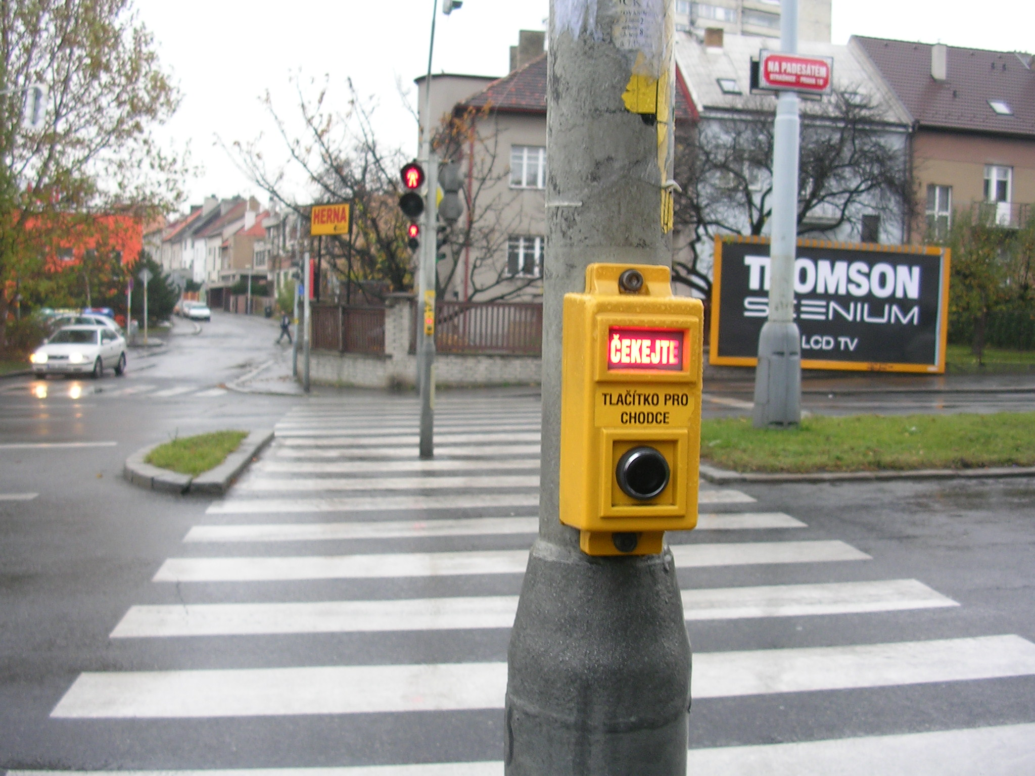 Traffic lights, Prague. Press button for pedestrians.